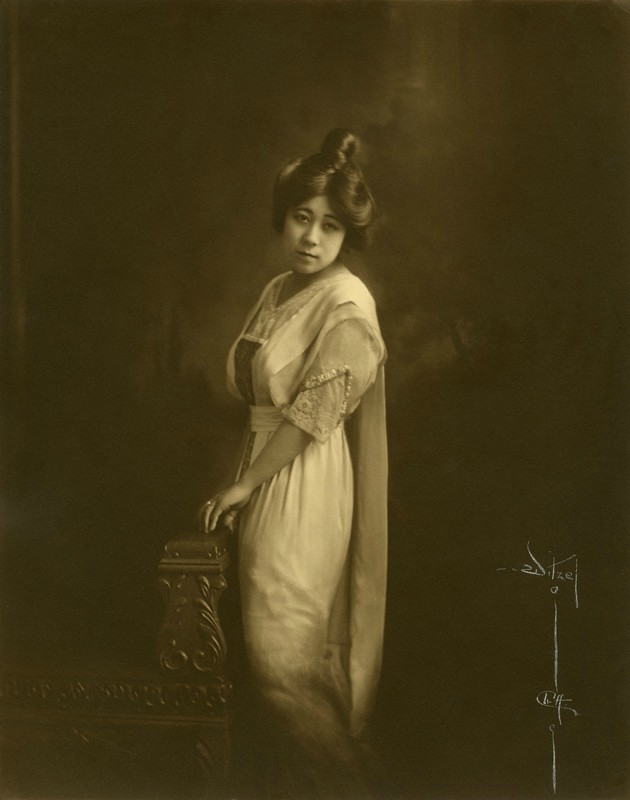 Portrait of Japanese-American actress Tsuru Aoki (1892–1961) by Albert Witzel (Witzel Studios, L.A.)